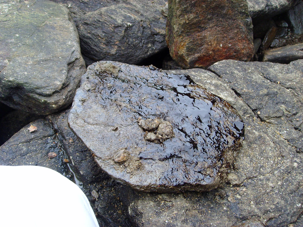 Hakampo Beach (After 2007 Korea Oil Spill)